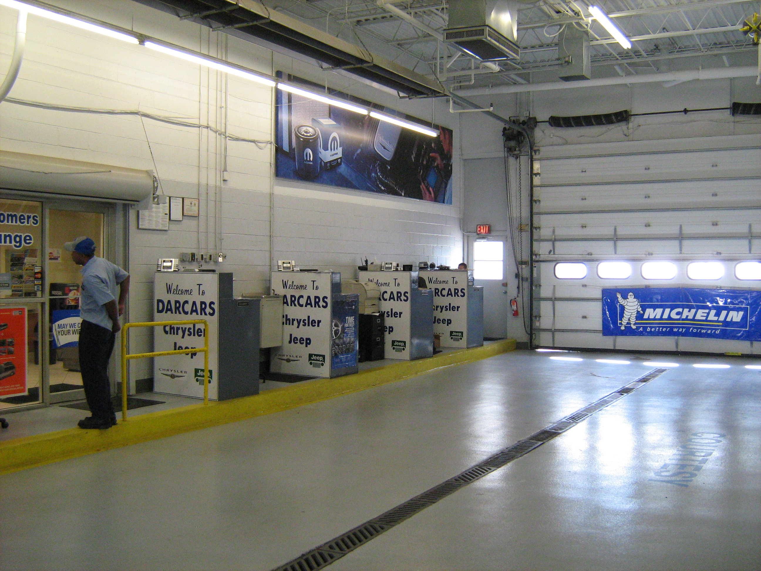 Automobile dealership - entrance for service and repair. This facility is located at: 755 Rockville Pike. Rockville, MD 20852.